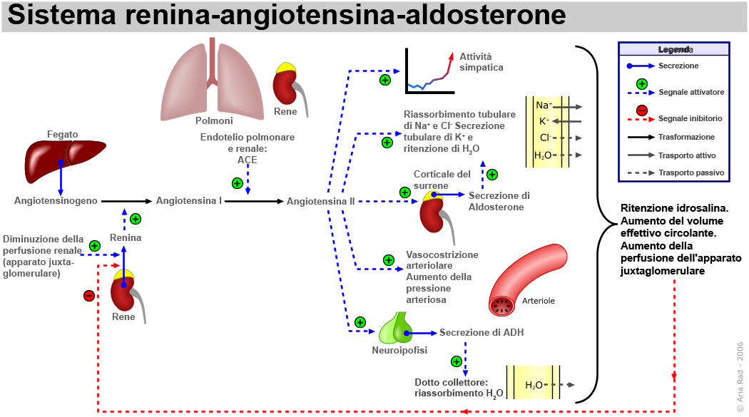 The renin-angiotensin system (RAS) or the renin-angiotensin-aldosterone system (RAAS). Start reading this schematic from the left, where it says "Decrease in renal perfusion (juxtaglomerular apparatus)". Alternatively, the RAAS can also be activated by a low NaCl concentration in the macula densa or by sympathetic activation. Legend info: Blue and red dashed arrows indicate stimulatory or inhibitory signals, which is also indicated by the +/-. In the tubule and collecting duct graphics, the grey dashed arrows indicate passive transport processes, contrary to the active transport processes which are indicated by the solid grey arrows. The other solid arrows either indicate a secretion from an organ (blue, with a starting Spot) or a reaction (black). These 2 processes can be stimulated or inhibited by other factors.